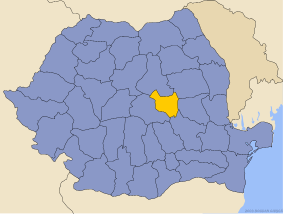 Location of Covasna County in Romania.